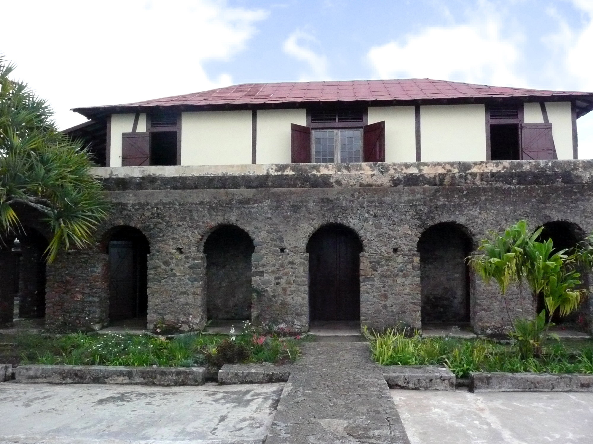 Cuba, historic coffee plantation cafetal Isabelica. manor house